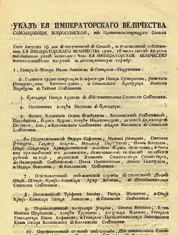 Ukaz by Catherine the Great issued on 16 August 1760 (fragment of the first page).